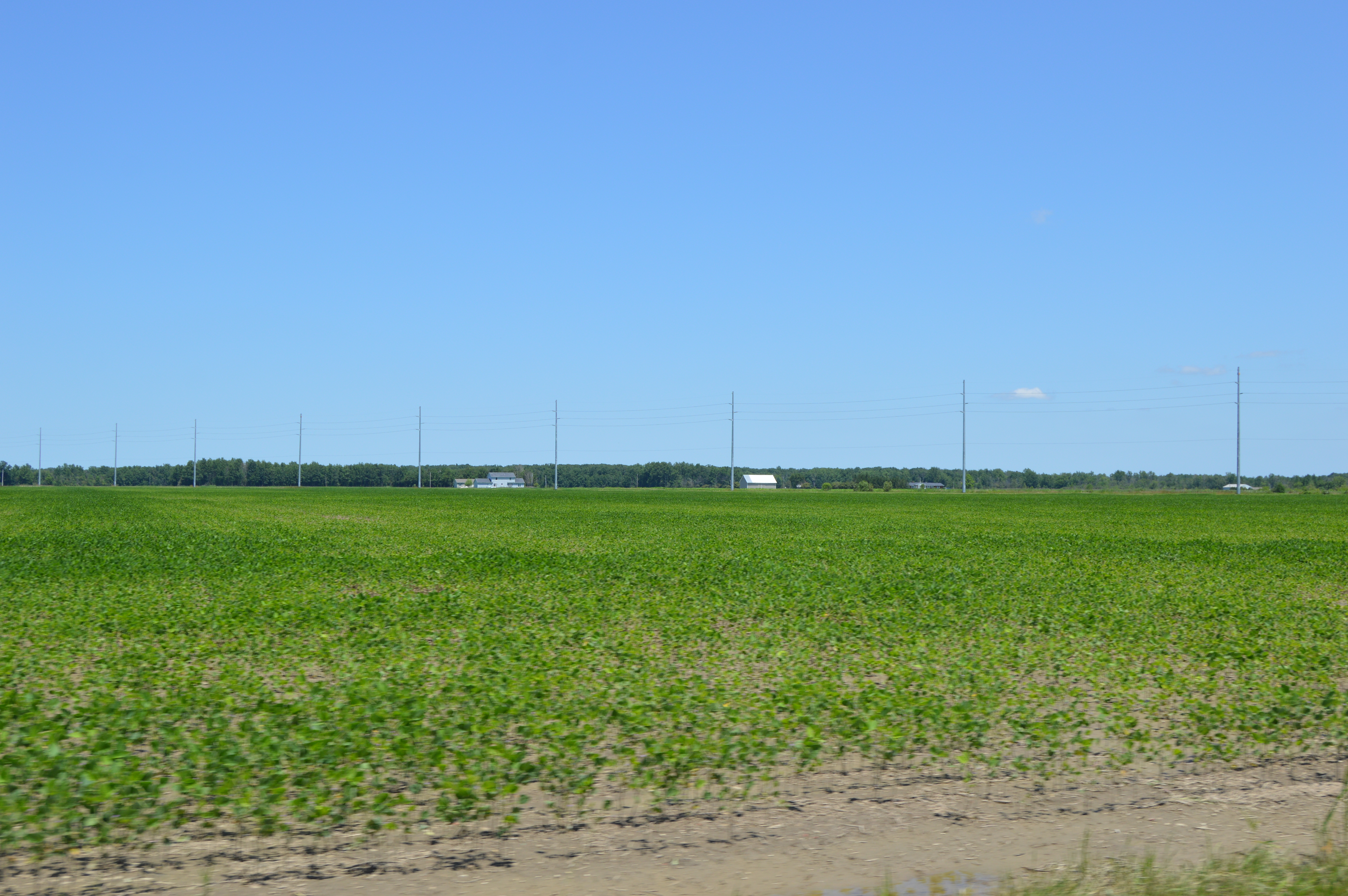 A soybean field on the northern side of Road K east of Road 19 in southwestern Greensburg Township, Putnam County, Ohio, United States.